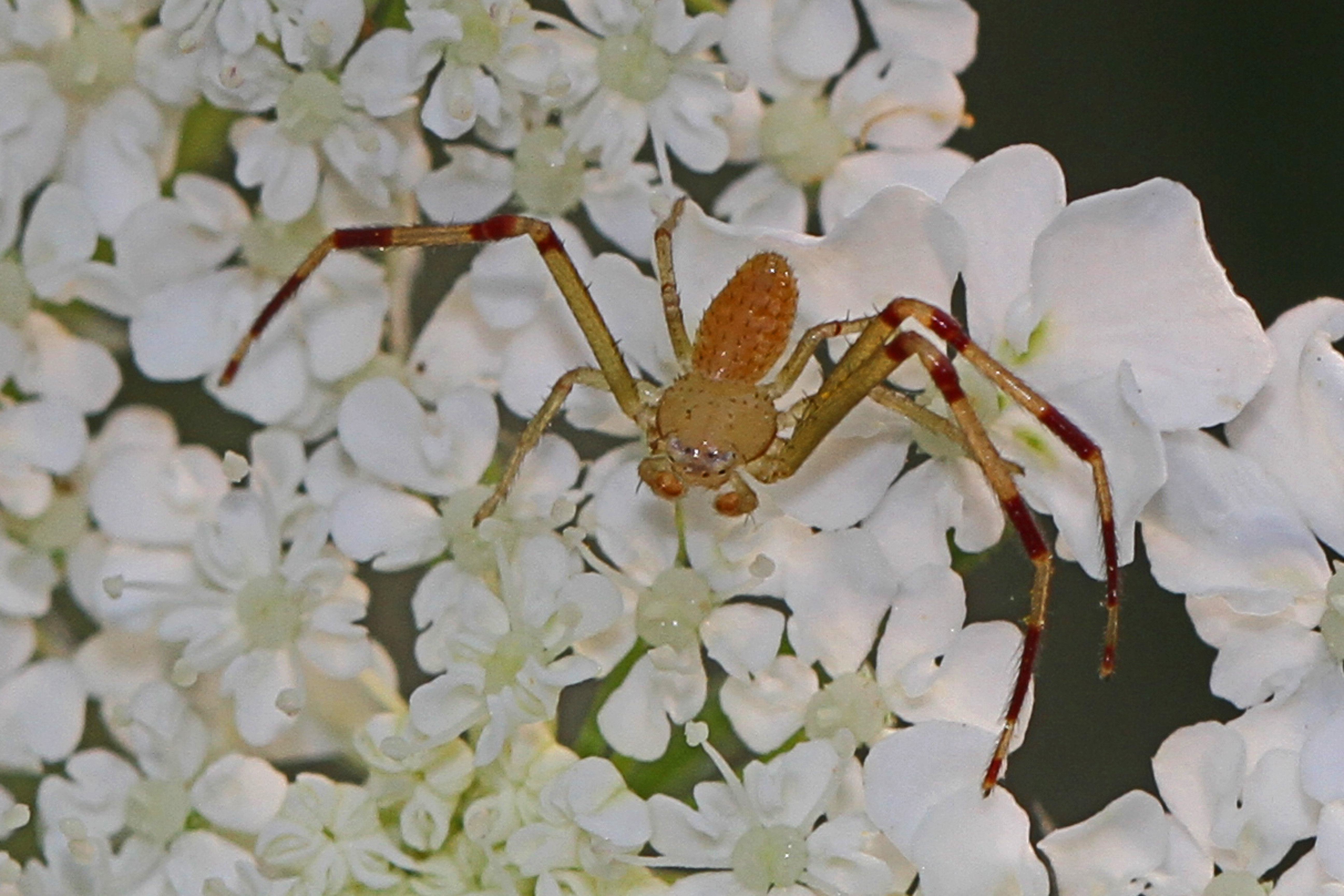 Crab Spider - Misumessus oblongus (immature male), Julie Metz Wetlands, Woodbridge, Virginia